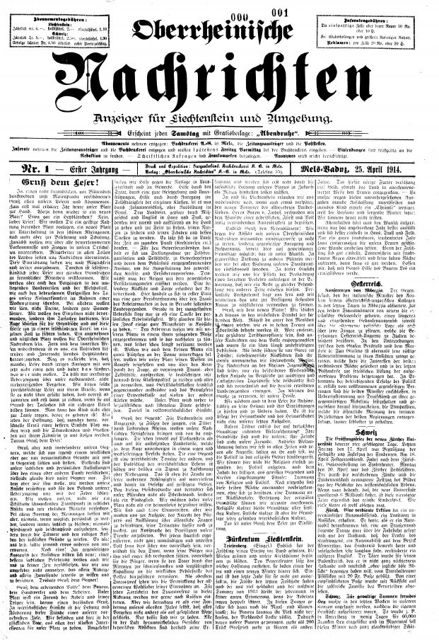 Photo of the title page of the first edition of the "Oberrheinischen Nachrichten" from April 25, 1914.